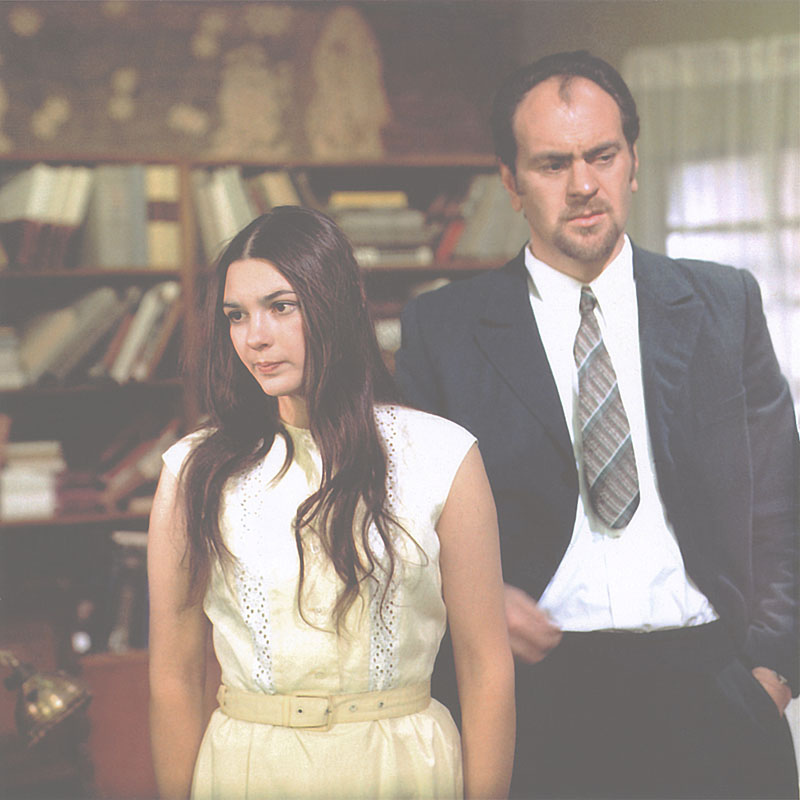 The Moldavian actors: Svetlana Toma and Ion Ungureanu.